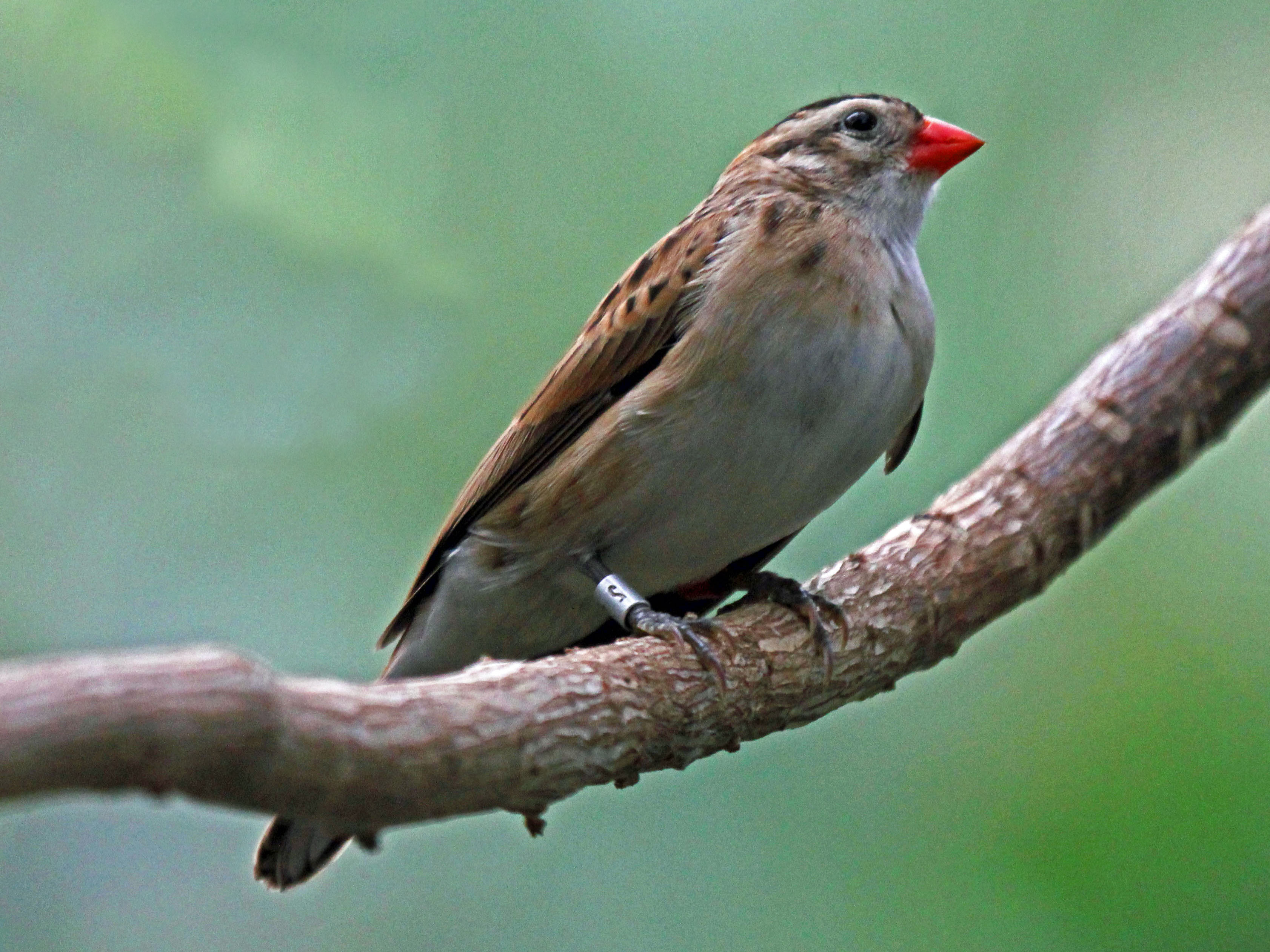 Male Pin-tailed Whydah (Vidua macroura) in non-breeding plumage - San Diego Zoo